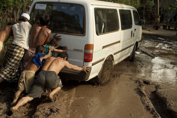 Joining forces to push a van on a flooded road in Cambodia.